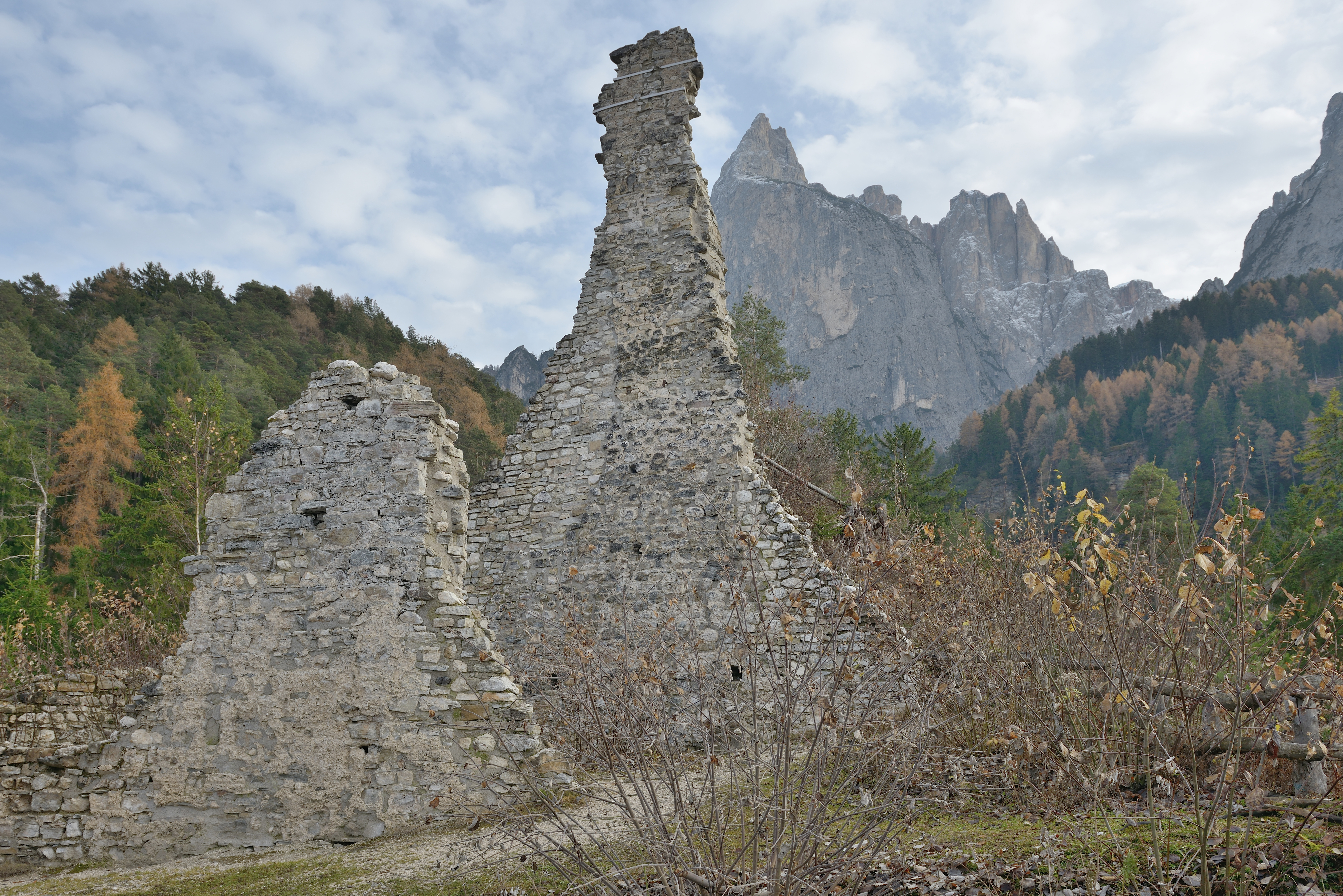 Castel ruin Salegg in St. Oswald Kastelruth